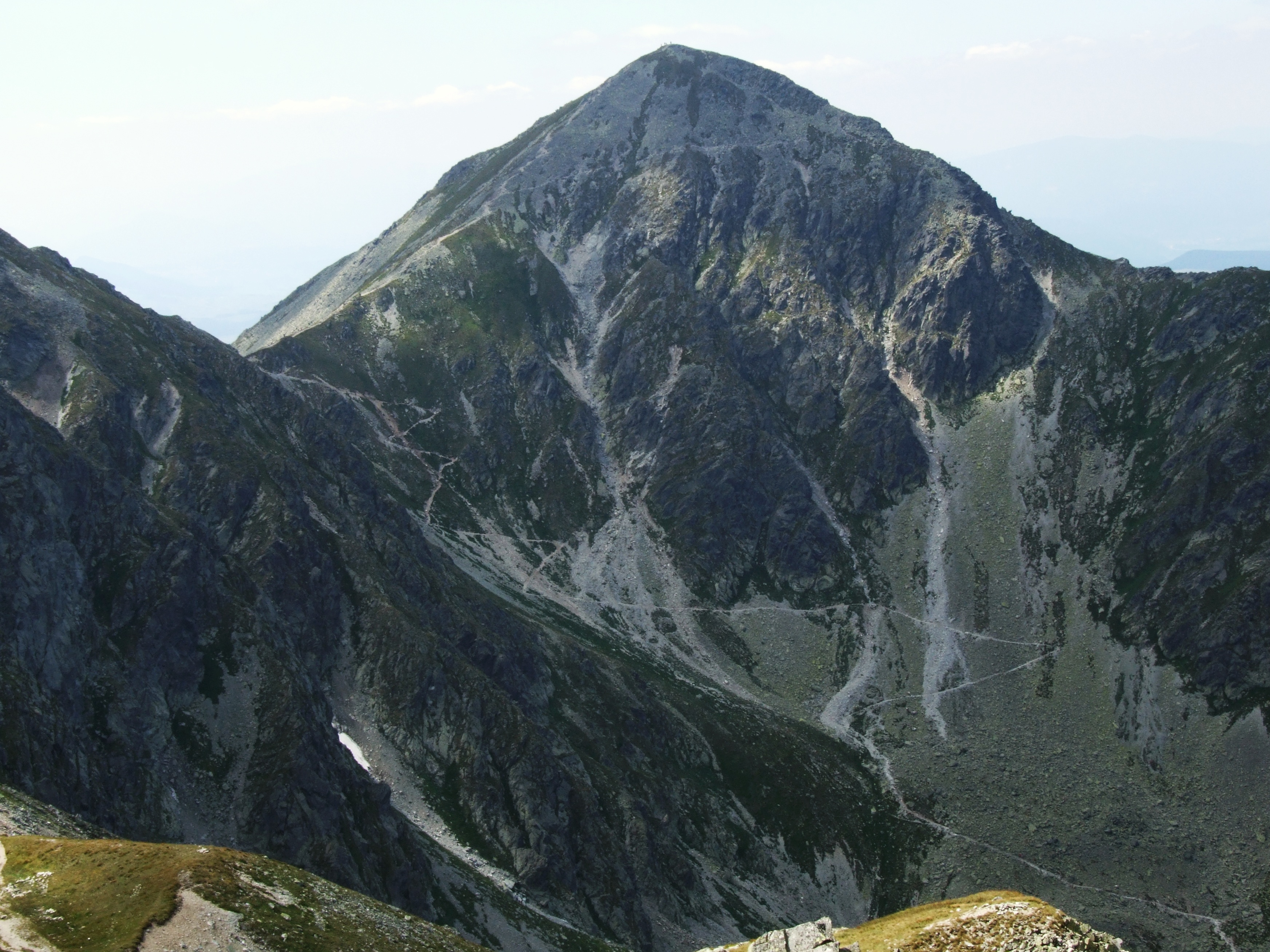 Pachoľa (Pachola) - West Tatra Mountains